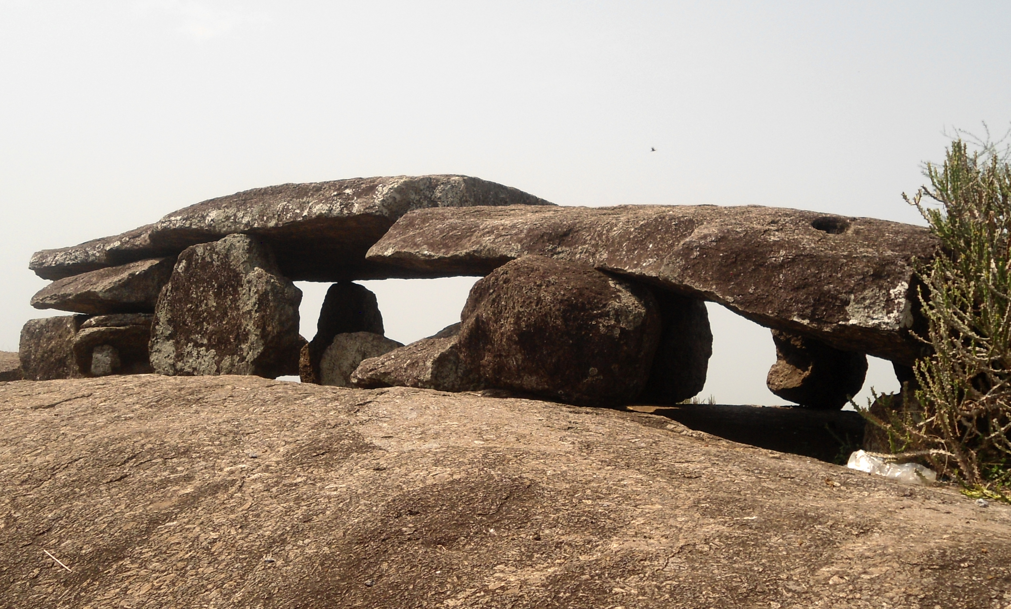 Megalithic Dolmen (said to be world's large single capstone as a dolmen with 36 ft in length and 14 ft in width and 2 ft thickness) of early Iron Age at Dannanapeta near Amudalavalsa, Srikakulam district, Andhra Pradesh